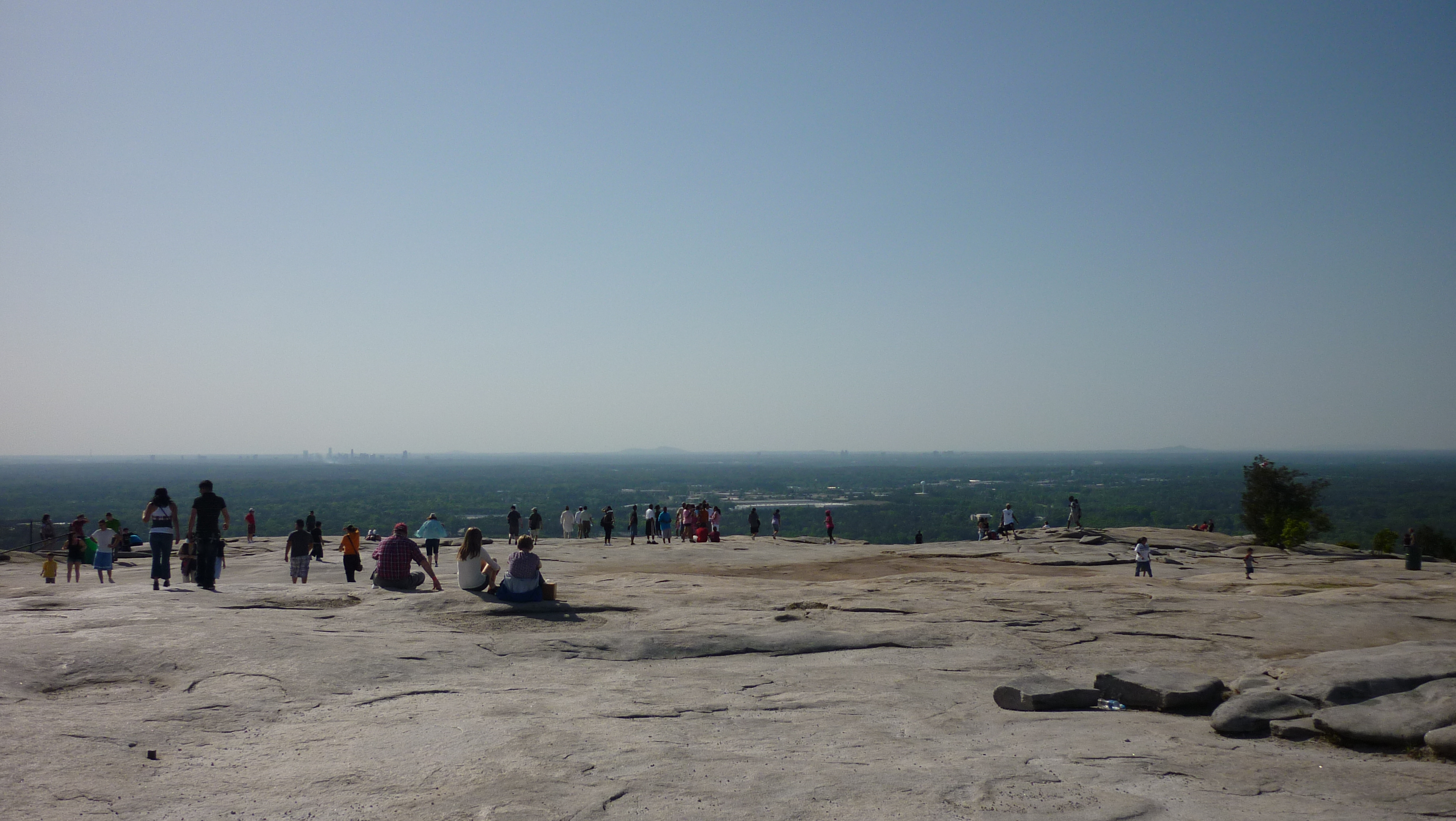 View from the summit of Stone Mountain with the Atlanta Skyline and Kennesaw Mountain in background